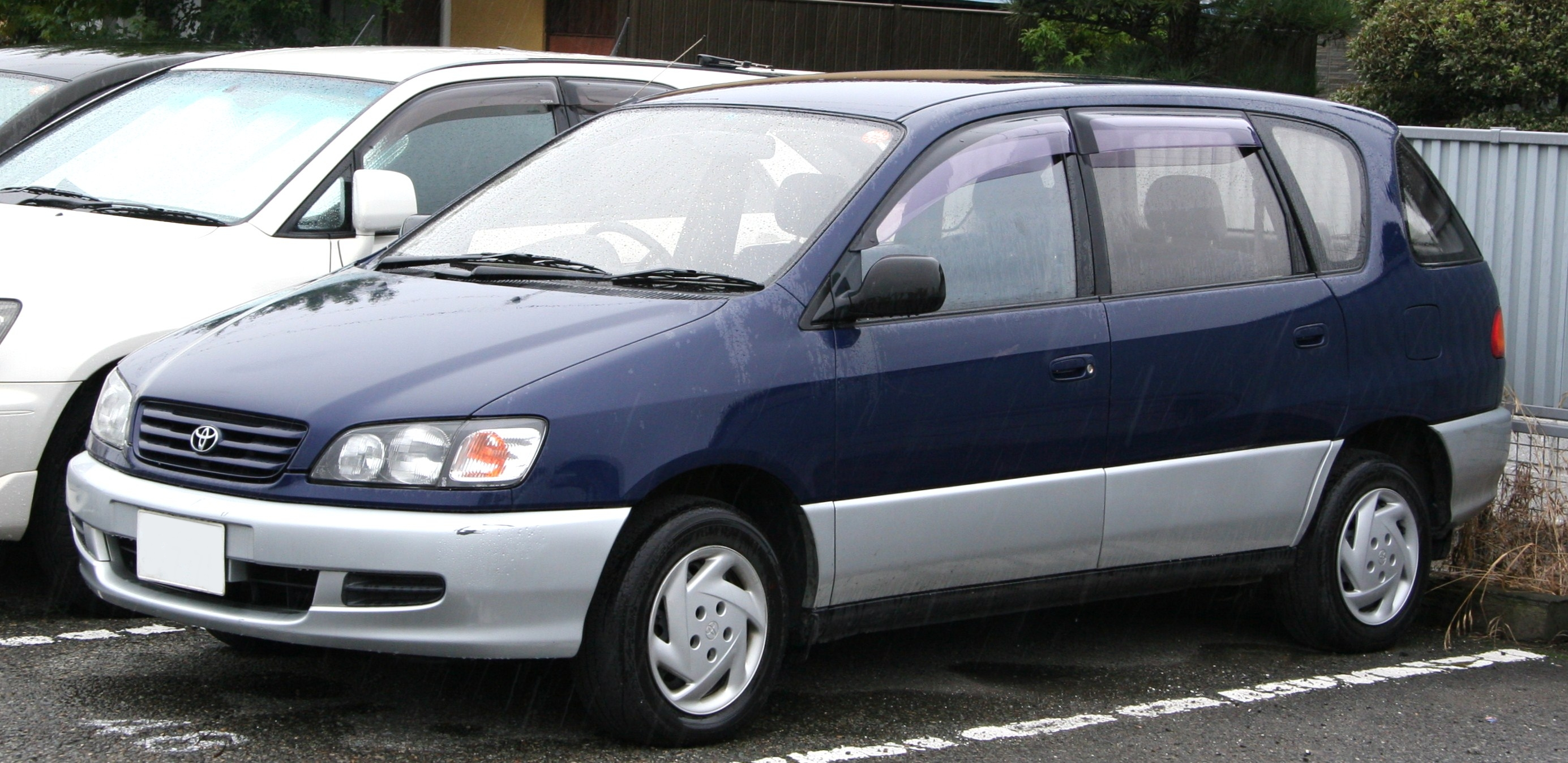 Toyota Ipsum